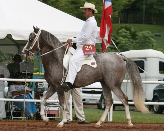 Sabino type roan coat pattern over a chestnut base Puerto Rican Paso Fino Horse